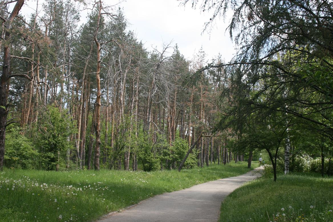 Park "Tulbe" in Kazanlak, Bulgaria